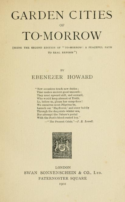 Title page of Howard, Ebenezer (1902) Garden Cities of To-morrow, London: Swan Sonnenschein & Co. OCLC: 11531342.